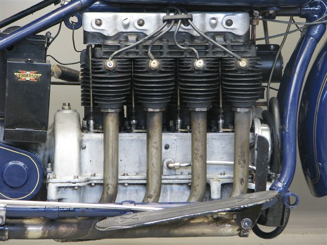 Henderson 1340 cc motorcycle engine from 1929